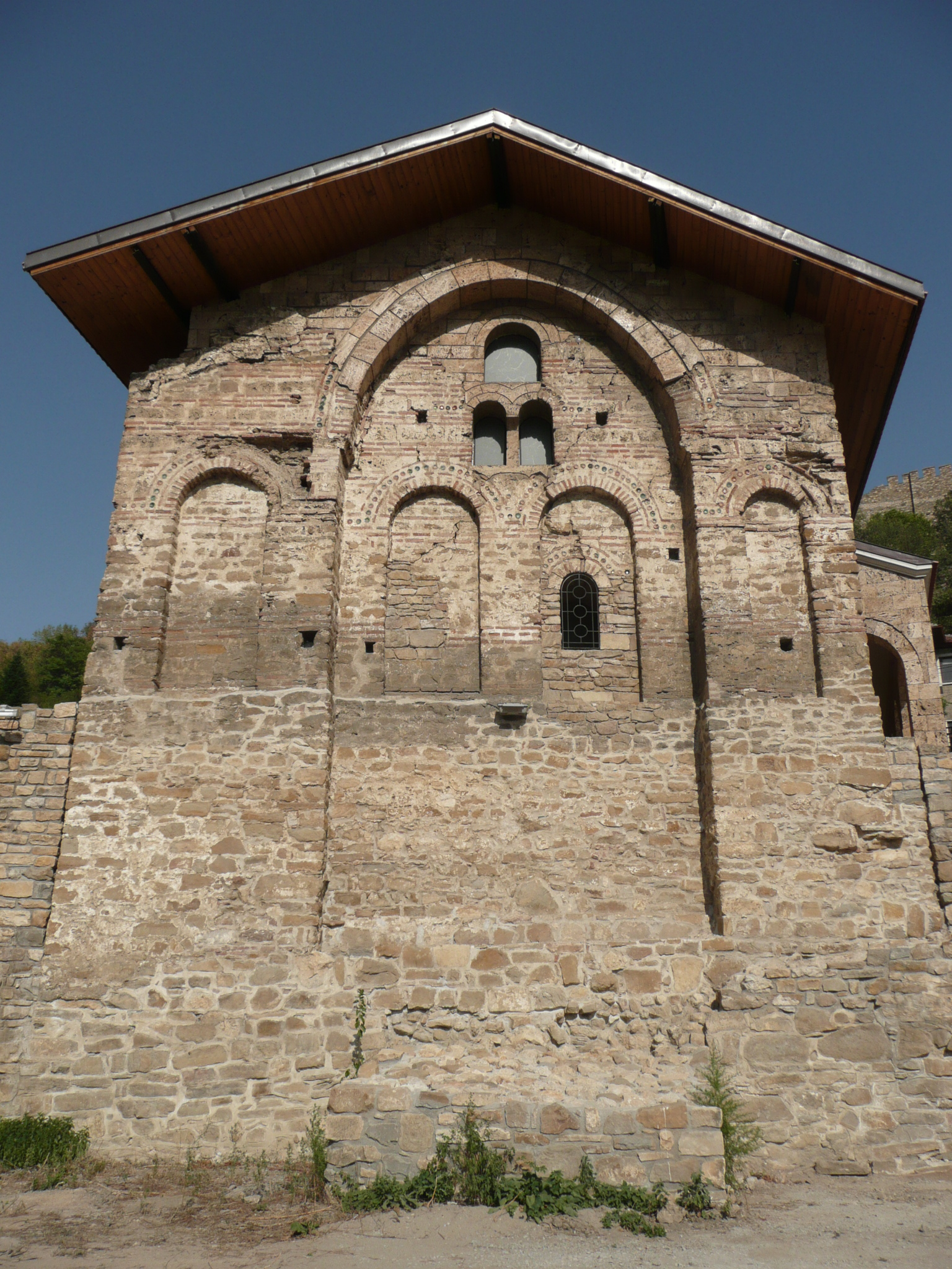 Holy Forty Martyrs Church, Veliko Tarnovo, Bulgaria (western facade), 1230 AD